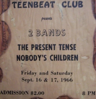 Teenbeat Club, Las Vegas Nevada, Concert Promotion Flyer